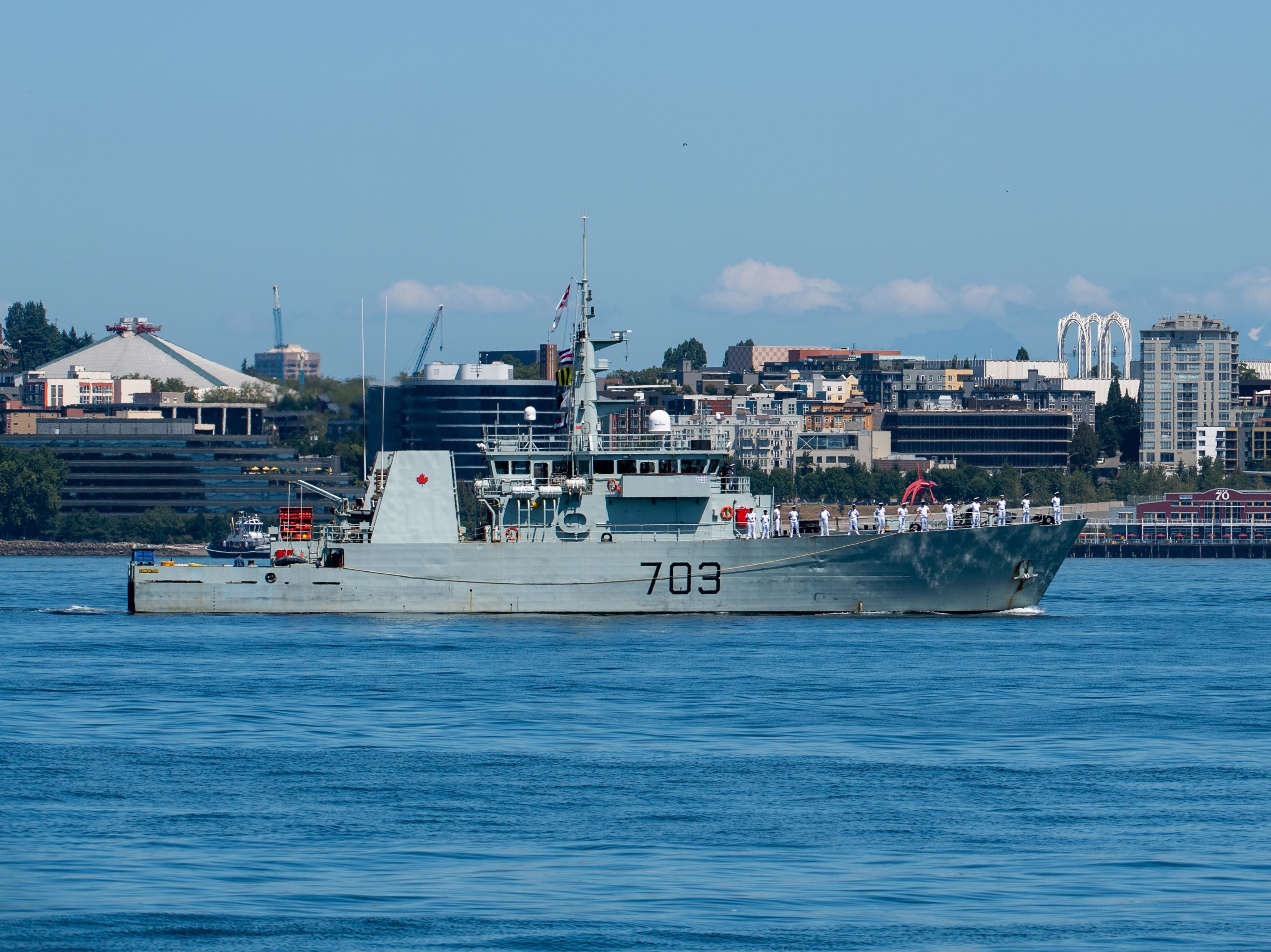 The Royal Canadian Navy Kingston-class coastal defence vessel HMCS Edmonton (MM 703) participates in a parade of ships in Elliott Bay, Washington (USA), during the 70th annual Seattle Fleet Week, on 29 July 2019.